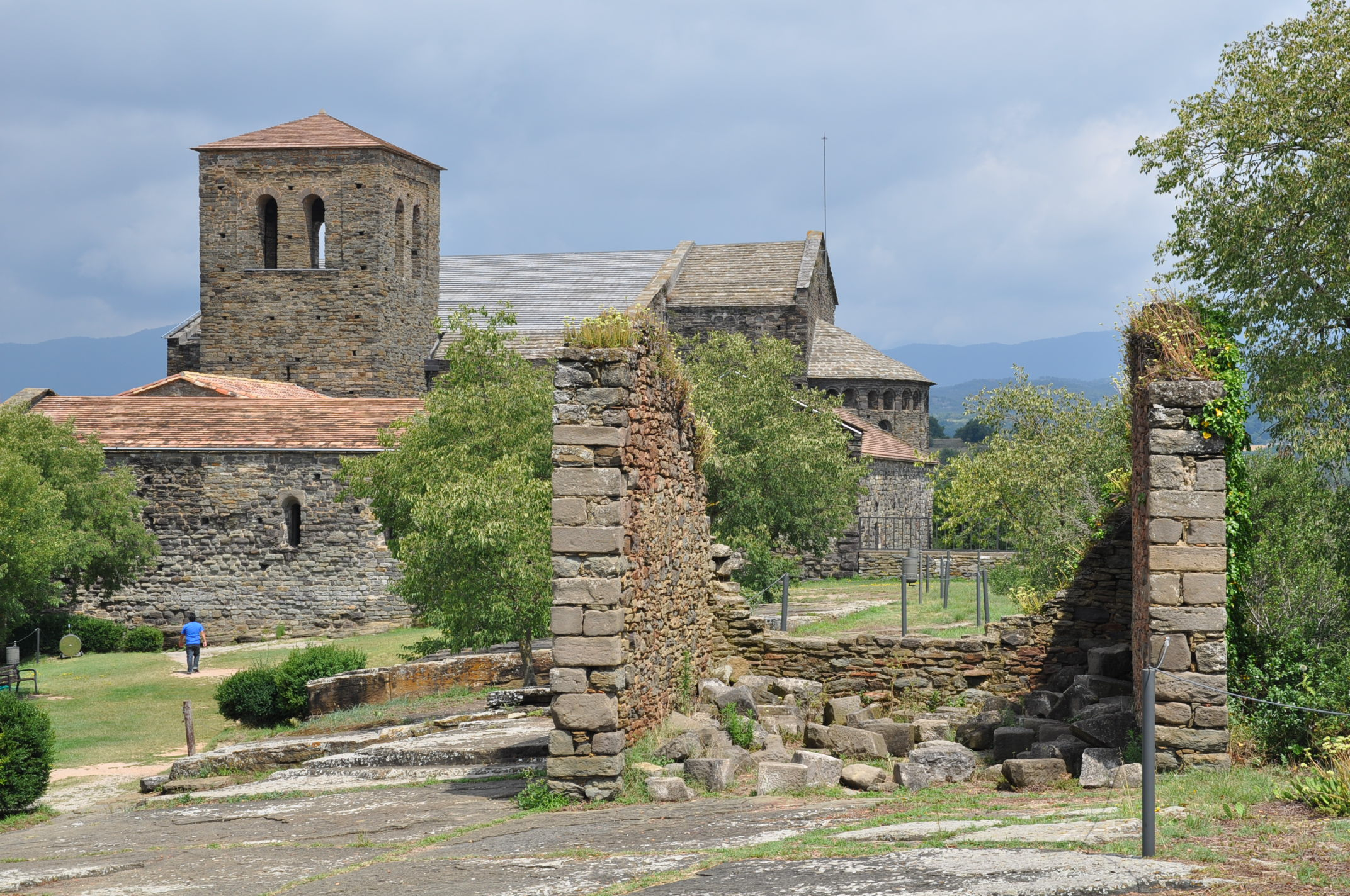 Sant Pere de Casserres is an 11th century former Benedictine monastery situated in the municipality of Les Masies de Roda (Comarca/County of Osona, Catalonia, Spain).